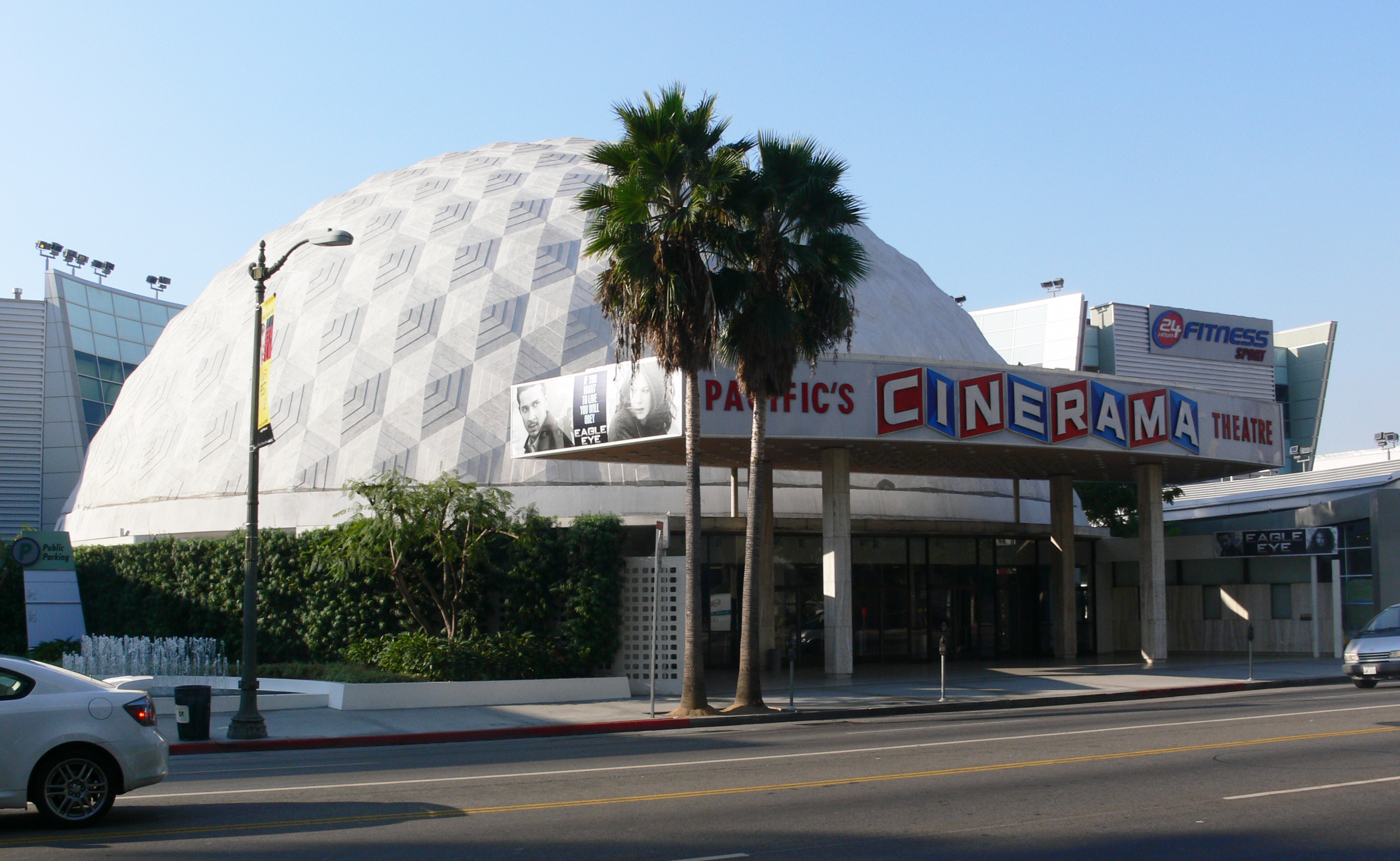 Cinerama Dome movie theatre, 6360 Sunset Boulevard, Hollywood, Los Angeles. Opened in late 1963, and designed by the architectural firm Welton Becket & Associates.